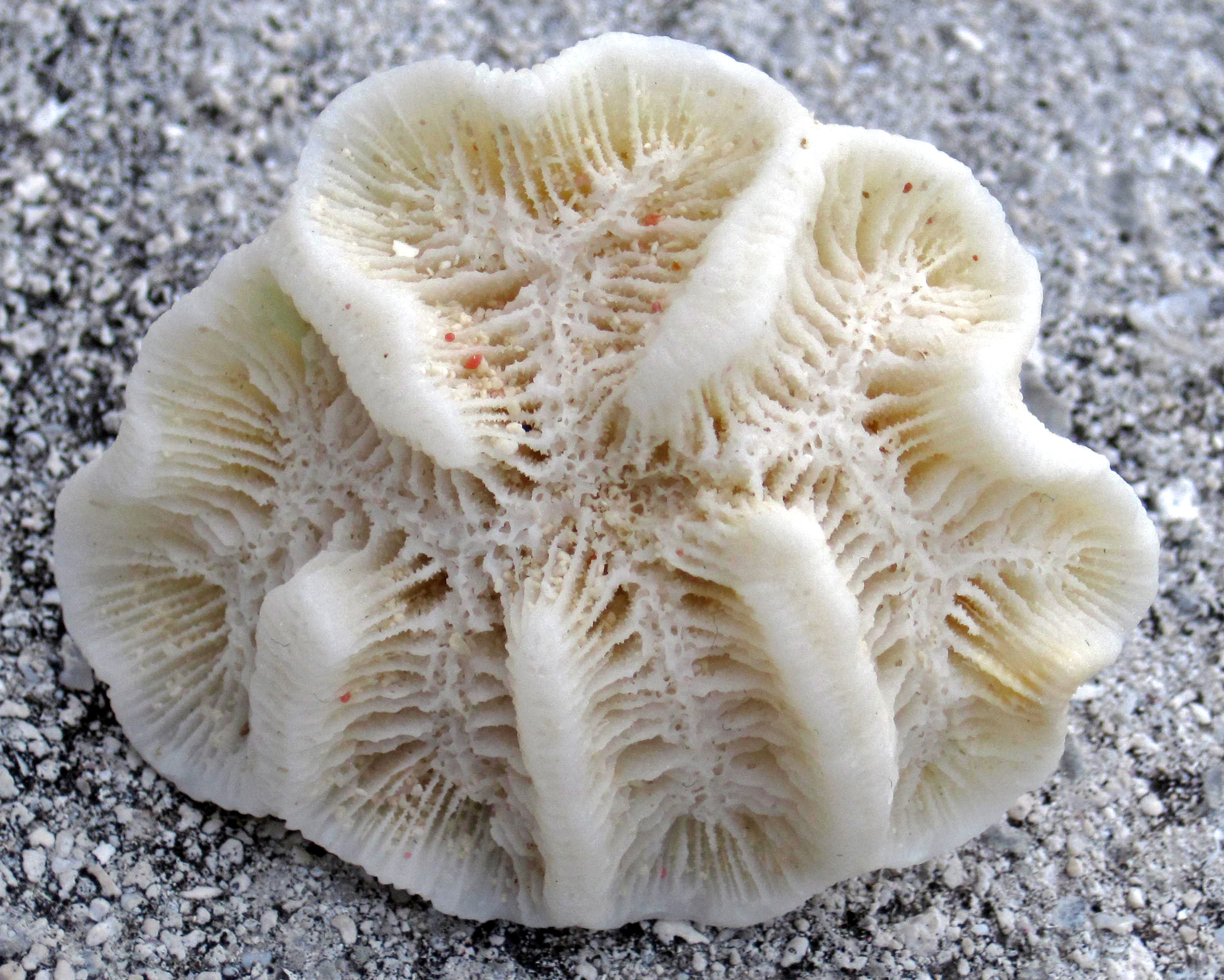 Manicina areolata (Linnaeus, 1758) - rose coral skeleton. Stony corals have a patchy distribution in the shallow marine waters surrounding San Salvador Island. They occur as isolated individual colonies, in patch reefs, fringing reefs, and barrier reefs. Stony corals are scleractinian anthozoan cnidarians (there are also non-scleractinian stony corals in the fossil record, such as tabulates and rugosans). They consist of individuals or colonies of gelatinous polyps that secrete hard skeletons of aragonite (CaCO3). Most scleractinian corals live in warm, tropical to subtropical, photic zone environments (the shallow portions of the world’s oceans where sunlight penetrates). Microbes (Symbiodinium - Protista, Dinoflagellata/Pyrrhophyta) called zooxanthellae live in their tissues and need to be in sunlight to make their own food (photosynthesis), which is shared with the host coral animal. Scleractinian corals have stinging cells (nematocysts) in their tentacles that paralyze prey. Classification: Animalia, Cnidaria, Anthozoa, Scleractinia, Faviidae